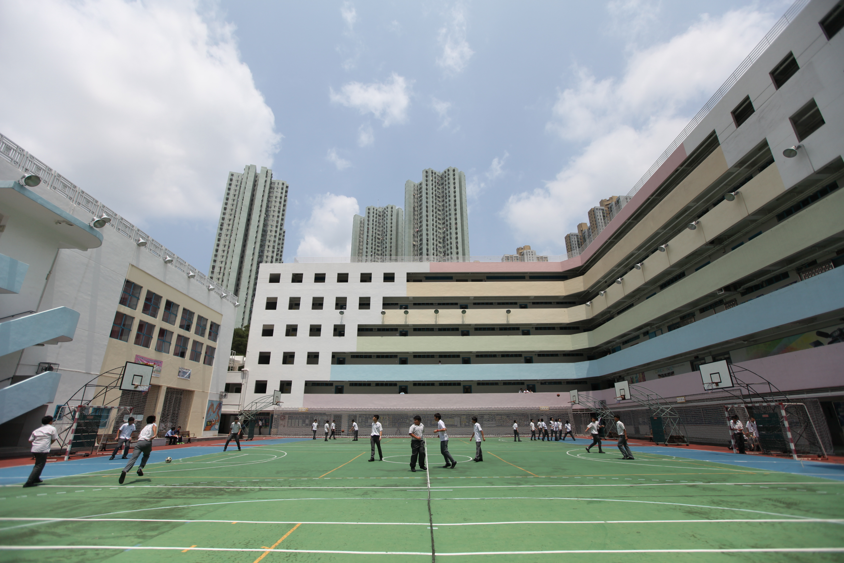 school playground